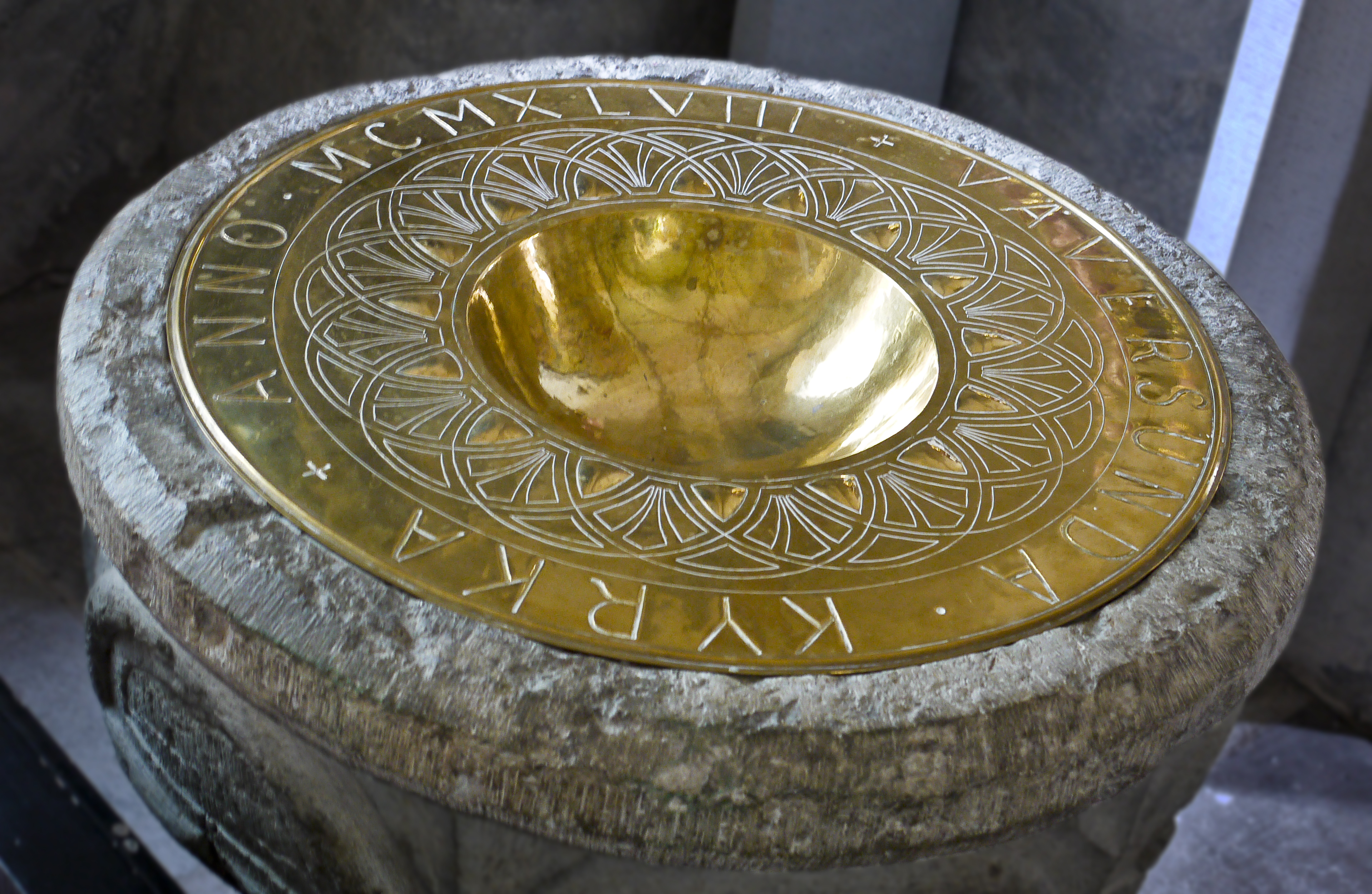 Väversunda kyrka/church. Diocese of Linköping, Sweden. Baptismal font.